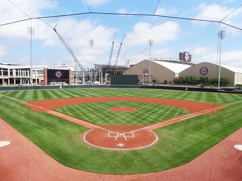 Olsen Field in College Station, TX. Home of the Texas A&M University Aggies baseball team.